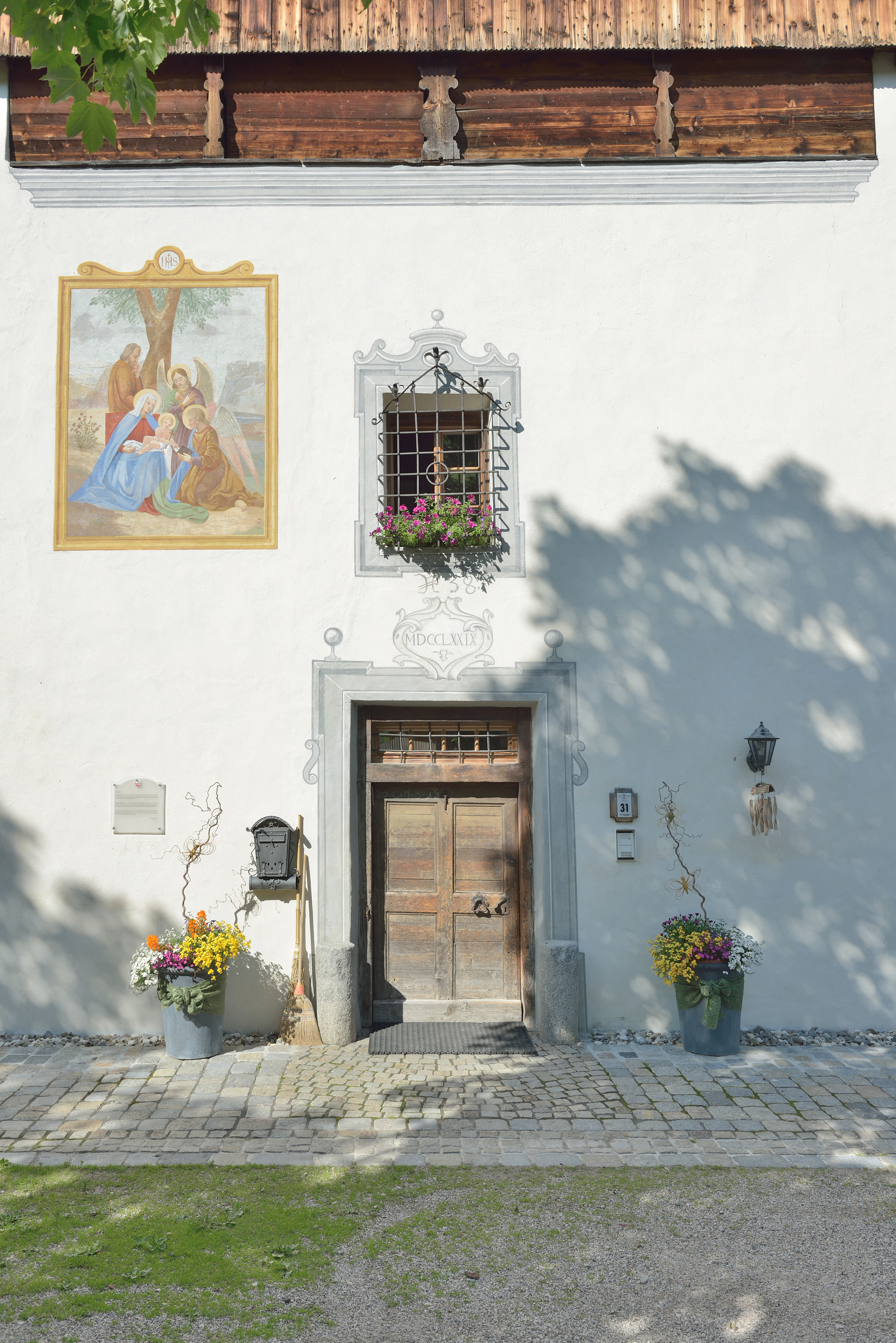 Alpine farmhouse "Ciampidel" in San Ciascian - Main entrance.